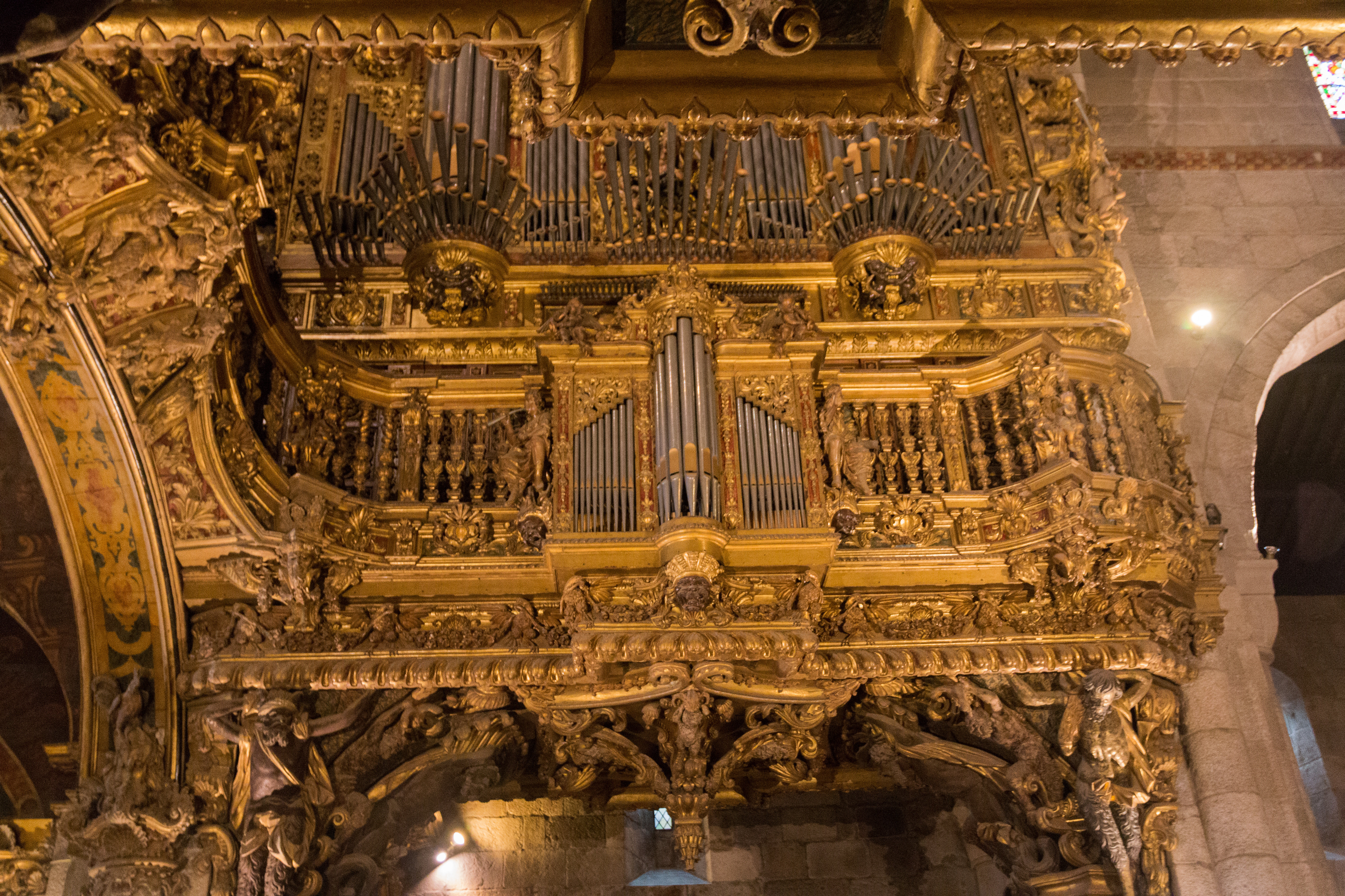 Positive organ,(Gospel side).